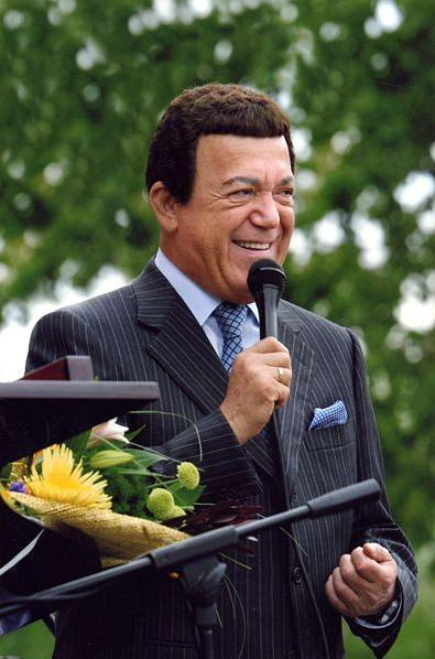 Iosif (Joseph) Davydovich Kobzon